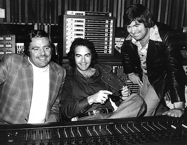 John K Watts, Neil Diamond and Barry Martin